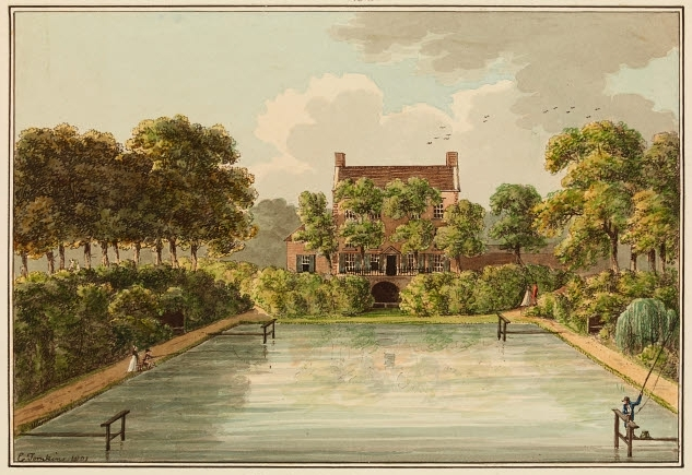 Der Peerless Pool in London von Charles Tomkins (1757-1823) - Werk von 1180